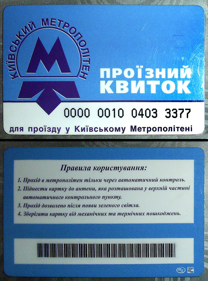 RFID card used in Kyiv metro.